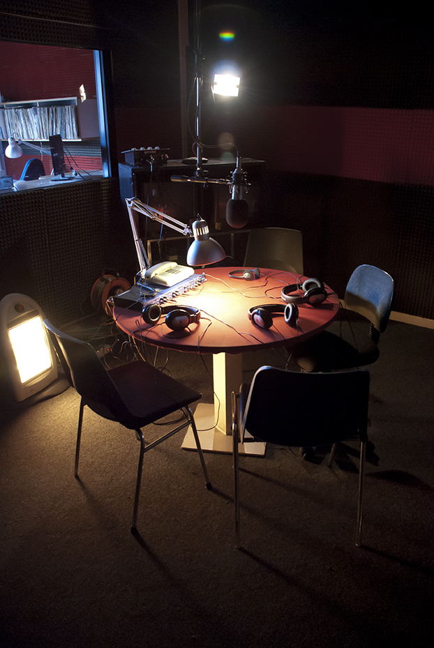 A studio at Controradio, Florence, Italy.